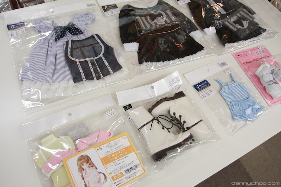 The Volks Store in Akihabara